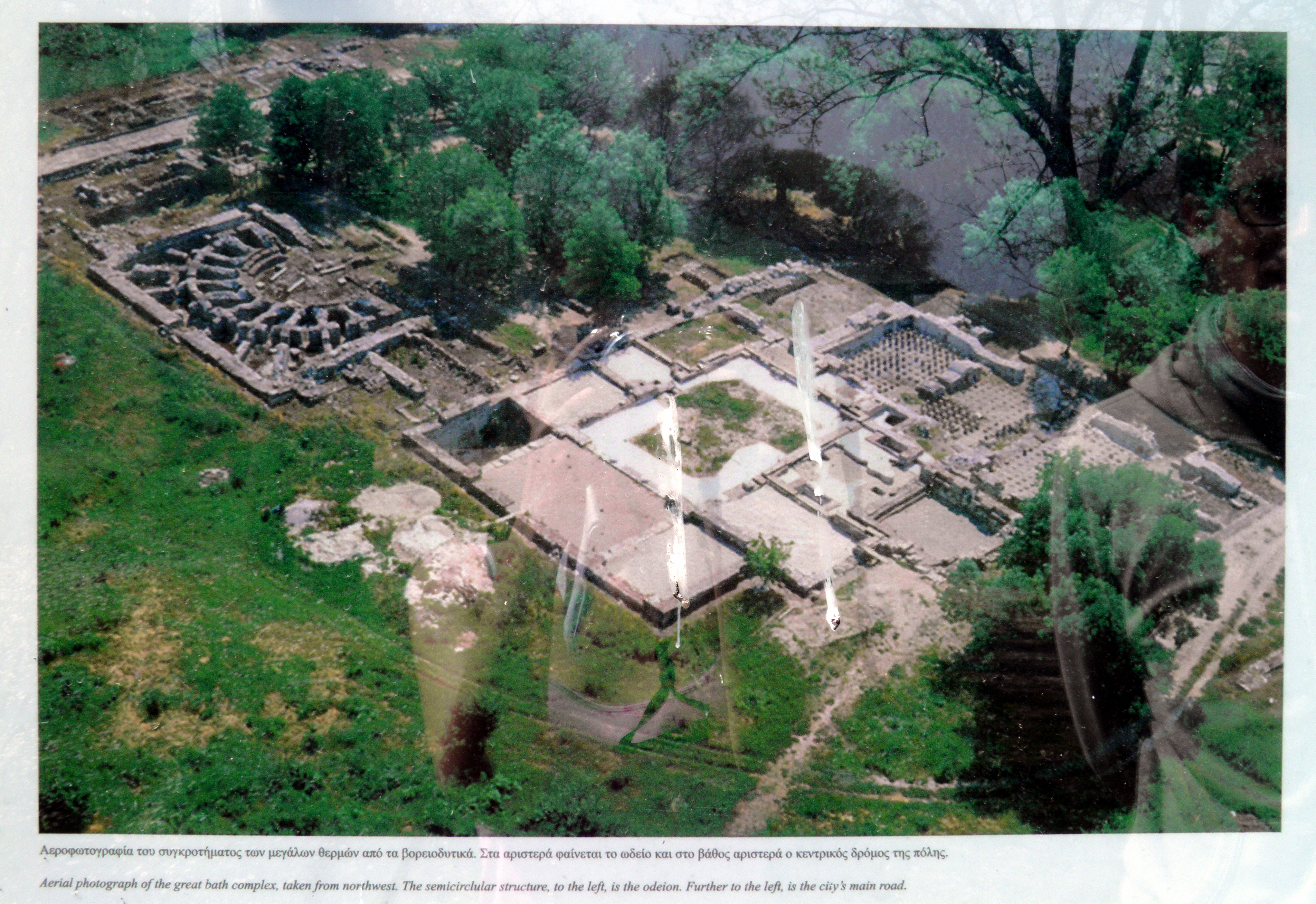 The great baths of Dion were constructed in the last decades of the 2nd century AD and were in use until the second half of the 3rd century AD, when a powerful earthquake destroyed the building. They were part of a complex organised around an open space, nowadays shaded with high trees. This complex included the odeion, a small roofed theatre, and the public toilets along the central road. A narrow forecourt was the entrance to the baths at the east side of the building. It led to a spacious reception hall with mosaic floors, where portraits of eminent men from the local community, such as the philosopher Herennianons were displayed. South to the entrance were the disrobing room and the quarters for the lukewarm and hot baths. The floor of the heated areas was set on a framework of short square columns arranged so as to create a basement, the hypocaust. At the west side of the grand hall was a large, decorated with statues, pool for the cold bath. The north wing, decorated with marble columns and mosaic floors, provided opportunities to relax and sociallly mix with other citizens. The eartern room of this wing was dedicated to the cult of god Asklepios. There were found fragments of statues reprsenting Asklepios and his family, his wife Epione, his sons Machaon and Podaleirios and his daughters Hygieia, Aigle, Pankeia and Iaso. This group of sculptures was made at the end of the 2nd century AD ina Neoattic workshop. Their prototypes were works of the 4th century BC.